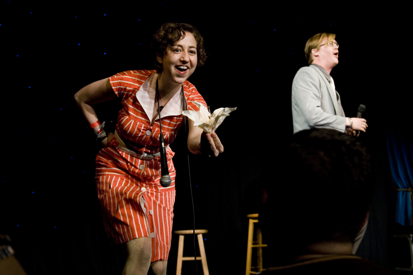 SXSW Comedy Fest 2010 Esther's Follies, The Velveeta Room, Austin Texas.